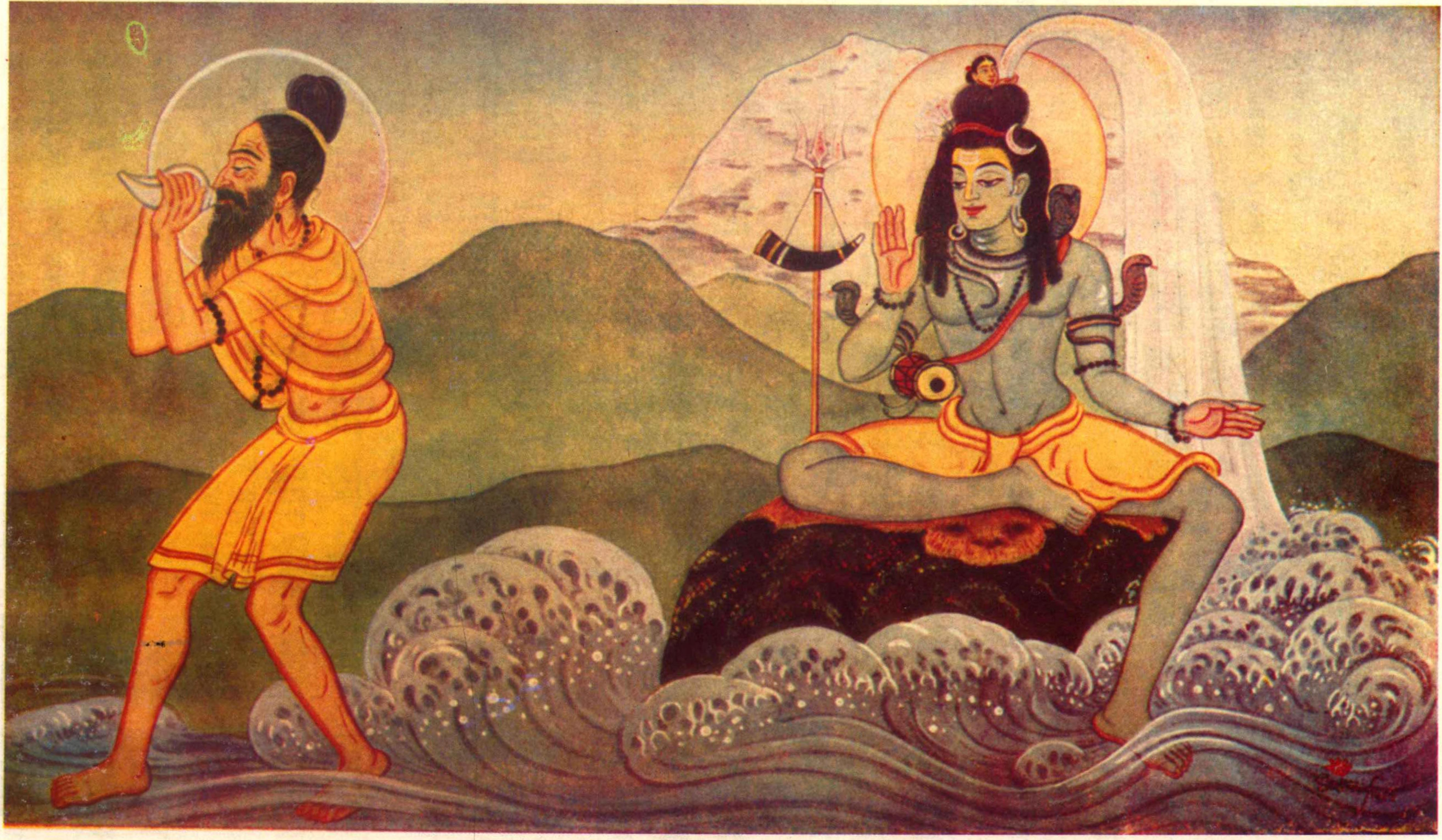 Tulsi Ramayan Tej Kumar Book Depo by MahaMuni Usage Topics Sanskrit, "महामुनि का संग्रह", "Tej Kumar Book Depot" Collection opensource Language Sanskrit Indological Books , 'Tulsi Ramayan - Tej Kumar Book Depo.pdf' Identifier TulsiRamayanTejKumarBookDepo Identifier-ark ark:/13960/t2t49xm76 Ocr language not currently OCRable Ppi 600 Scanner Internet Archive HTML5 Uploader 1.6.3